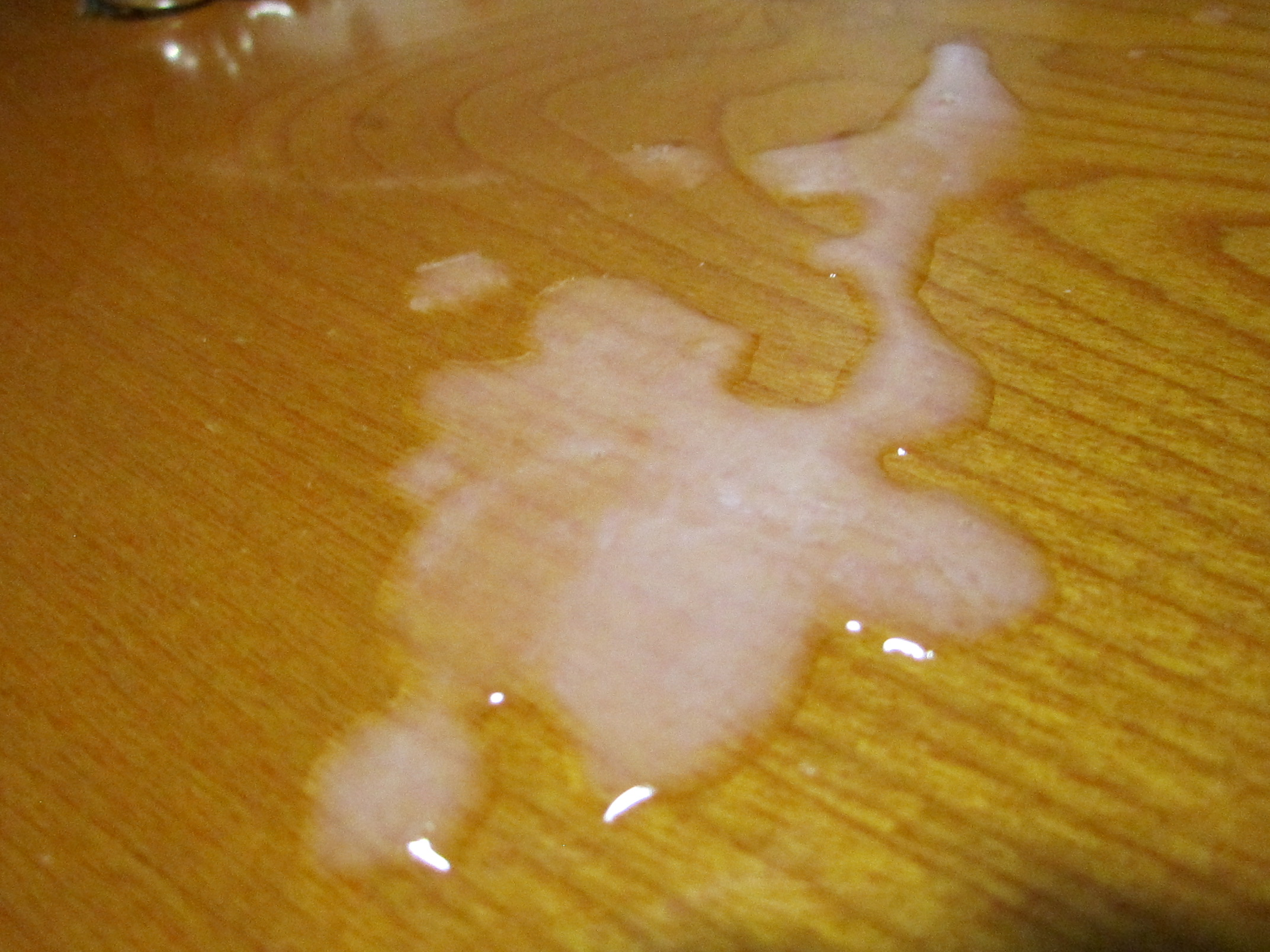 Human Semen (Sperm) from a 32 year old man